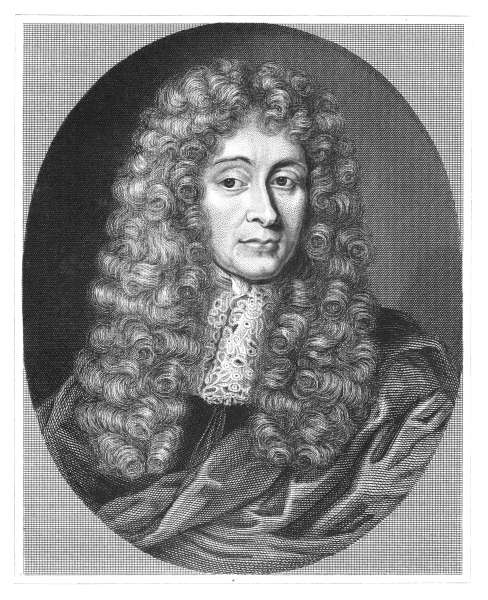 John Erskine, 22nd Earl of Mar - Earl of Mar